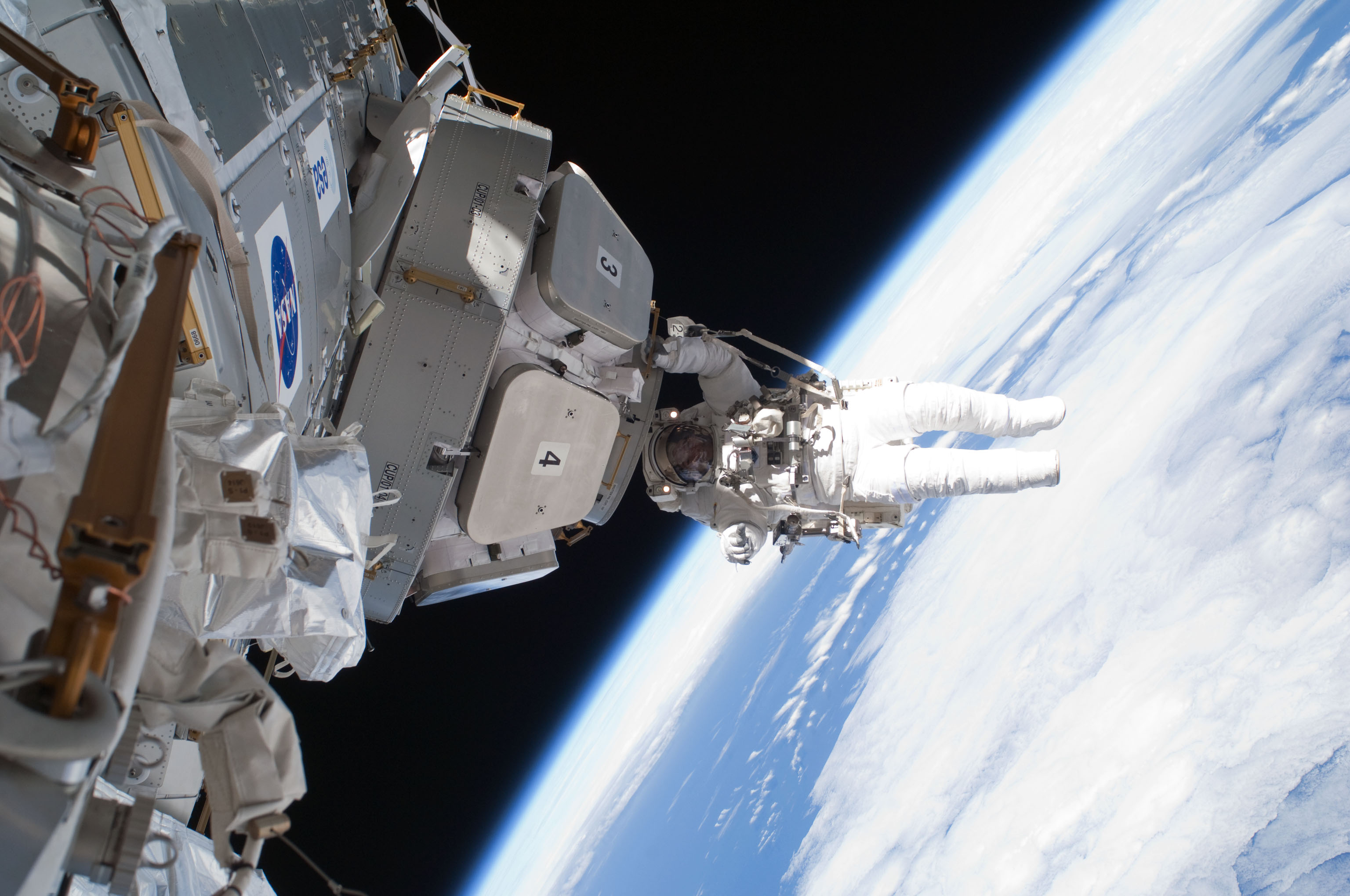 NASA astronaut Nicholas Patrick, STS-130 mission specialist, participates in the mission's third and final session of extravehicular activity (EVA) as construction and maintenance continue on the International Space Station. During the five-hour, 48-minute spacewalk, Patrick and astronaut Robert Behnken (out of frame), mission specialist, completed all of their planned tasks, removing insulation blankets and removing launch restraint bolts from each of the Cupola's seven windows.